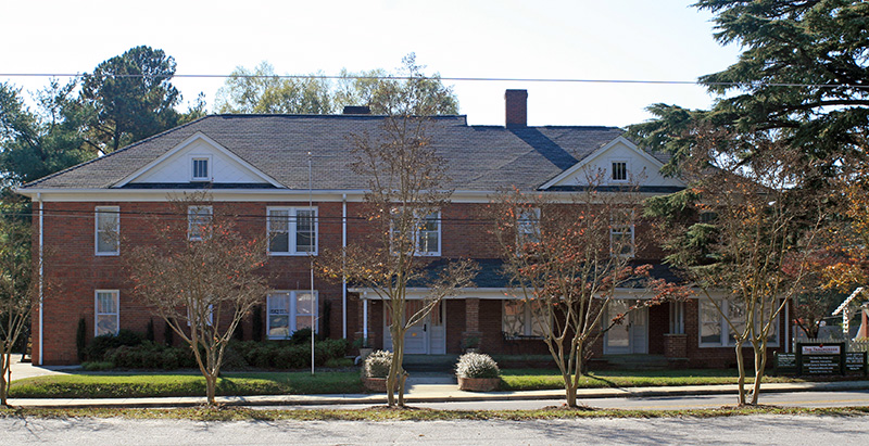 Fuquay Springs Teacherage located at 602 E. Academy Street, Fuquay-Varina, North Carolina.